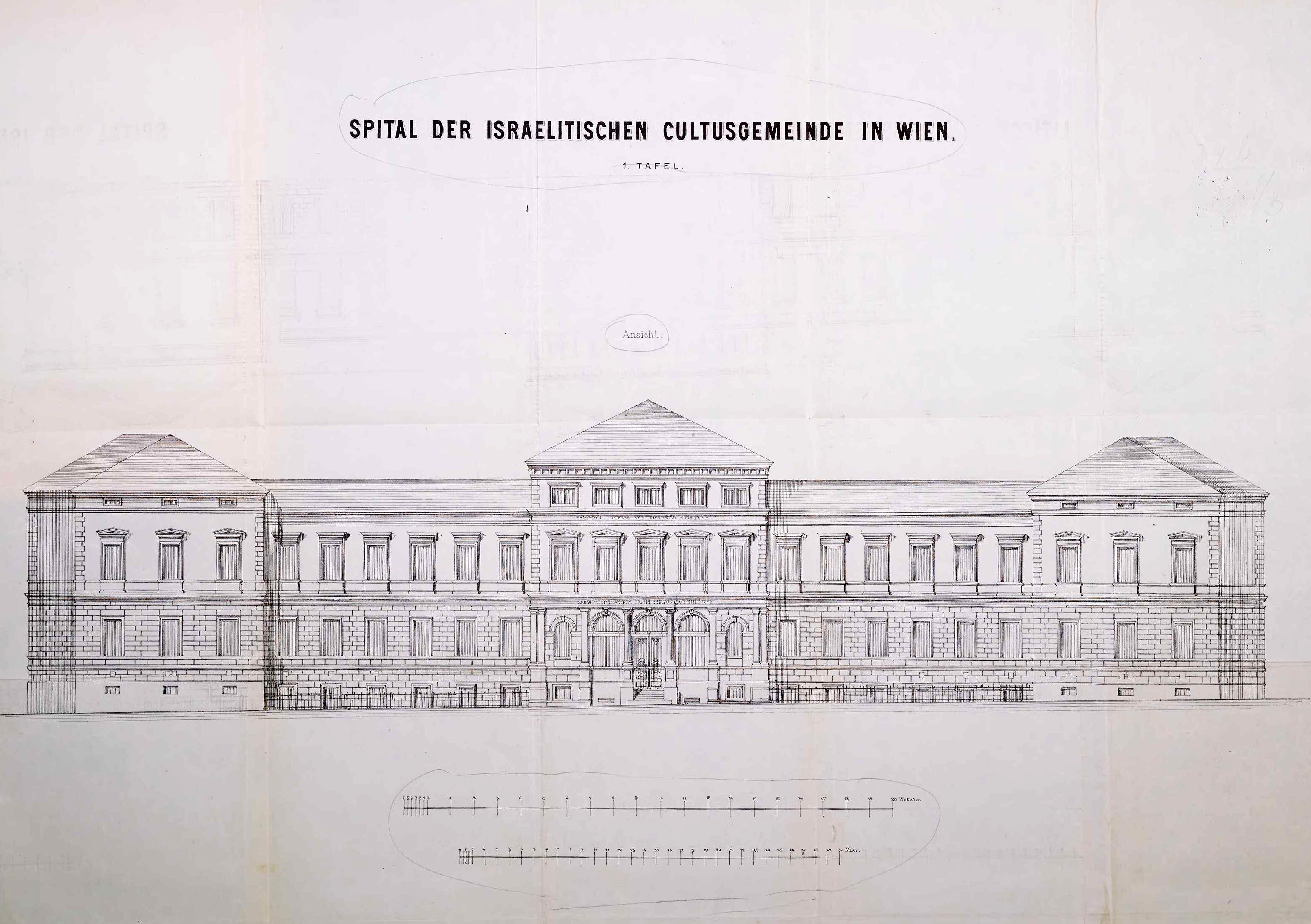 The Rothschild Hospital (Hospital of the Vienna Israelite Community), donated by Anselm von Rothschild. Architect: Wilhelm Stiassny. Währinger Gürtel 97, 1180 Vienna